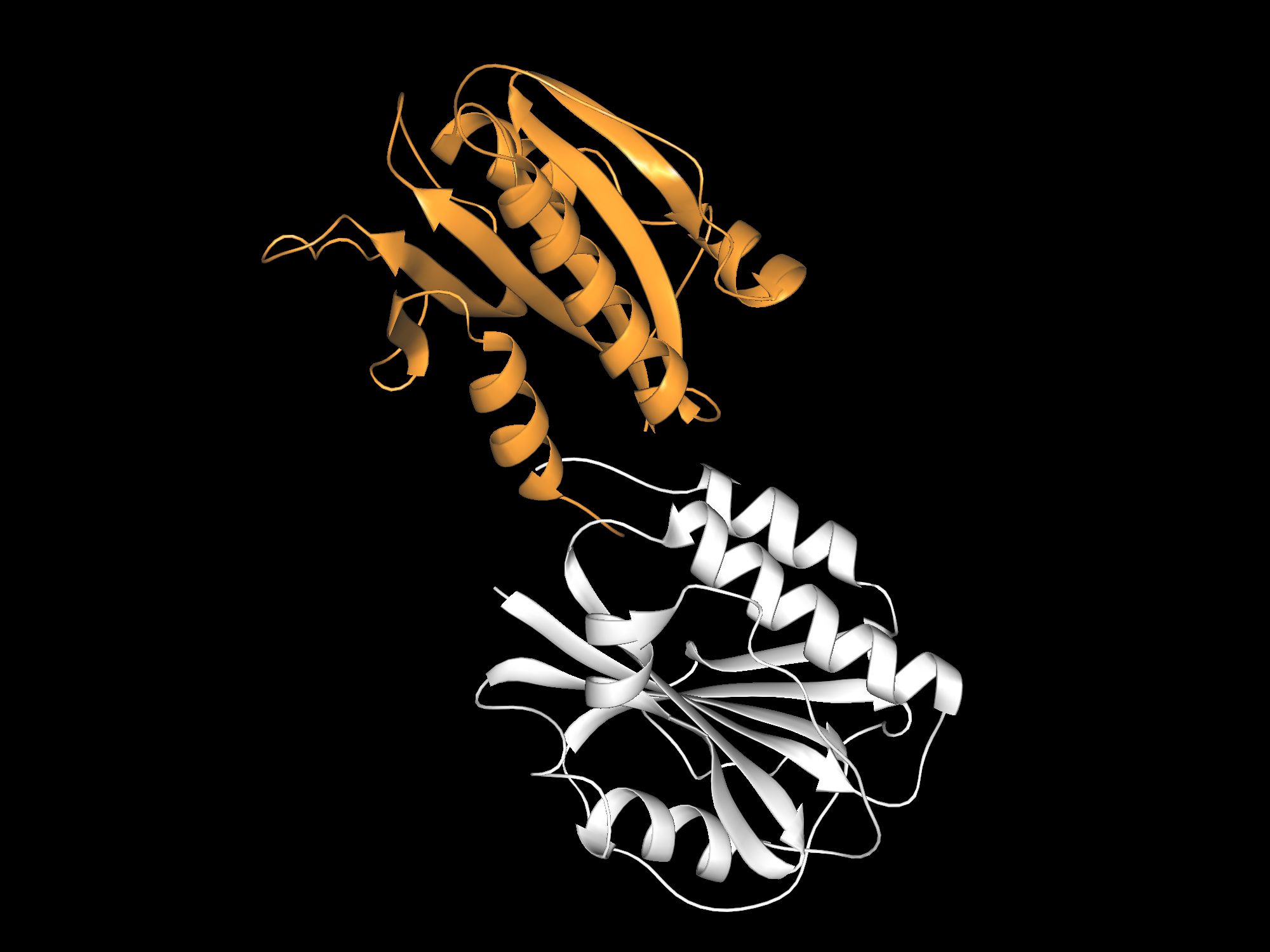 Structural formula of Lymphocyte function-associated antigen 1 (LFA-1)